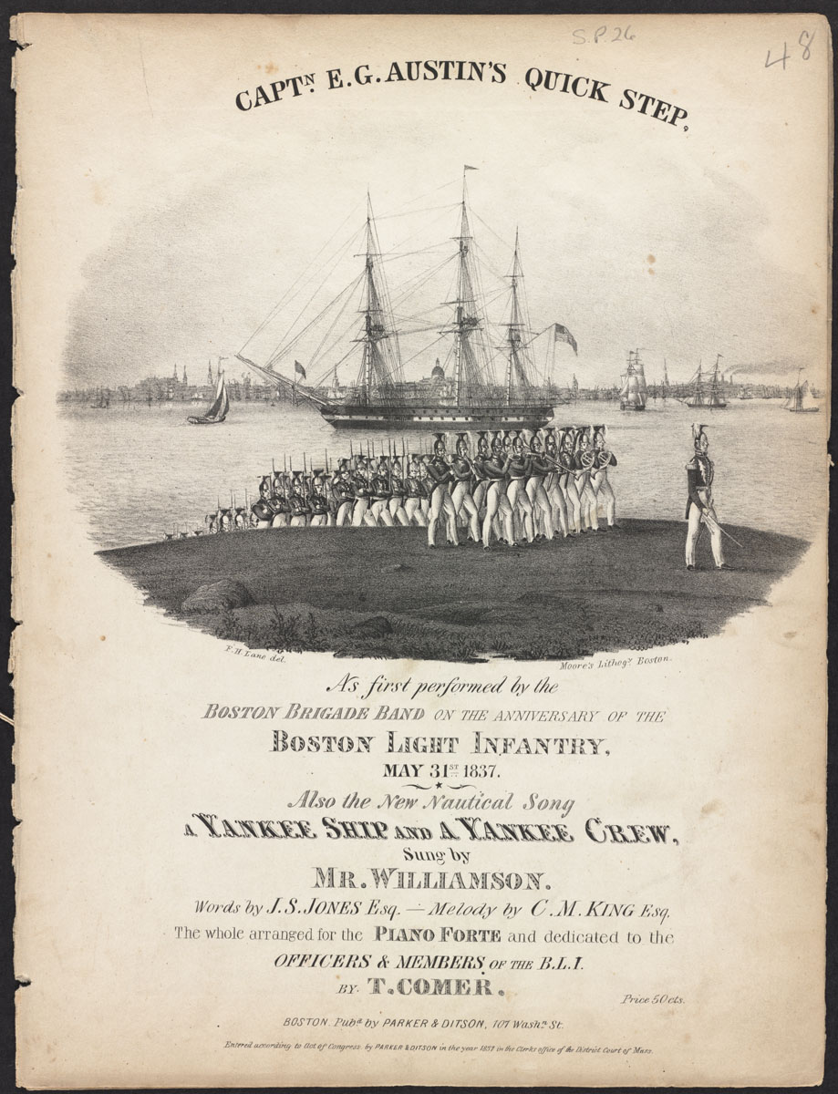 Description= Accession No.: 07_07_000217 Call Number: no. 48 of S.P.26 Lithographer: Moore, Thomas Title of Lithograph: Boston Light Infantry on the Charlestown Shore Composer: Comer, T. Title of Composition: Yankee Ship and a Yankee Crew / Captn. E. G. Austin's Quick Step Place of Publication: Boston Publisher: Parker and Ditson Date: 1837 BPL Department: Music |Source=Boston Light Infantry on the Charlestown Shore |Date=2007-12-12 15:35 |Author=BPL |Permission= |other_versions=